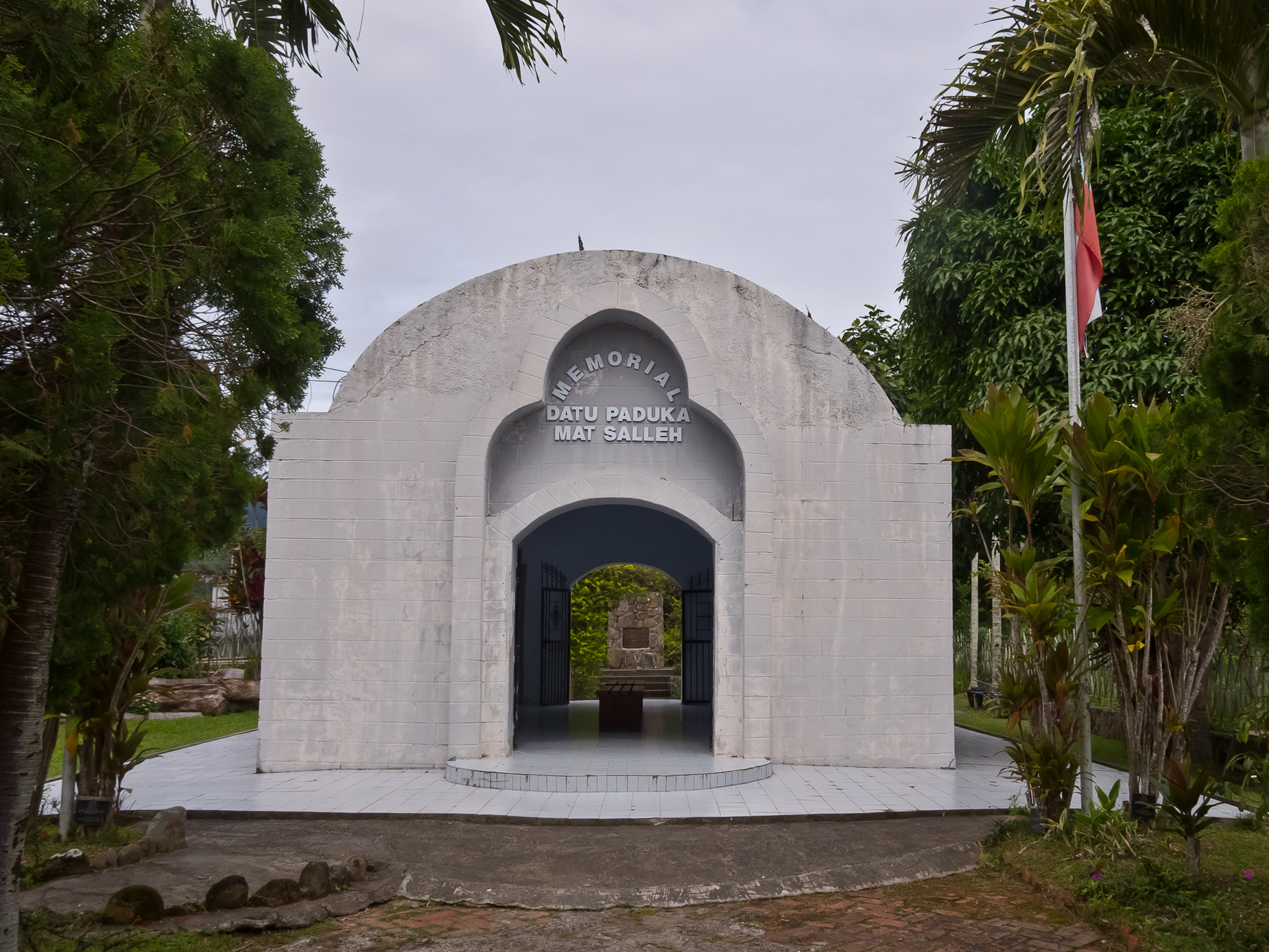 Mat Salleh Memorial near Tambunan, Sabah, Malaysia